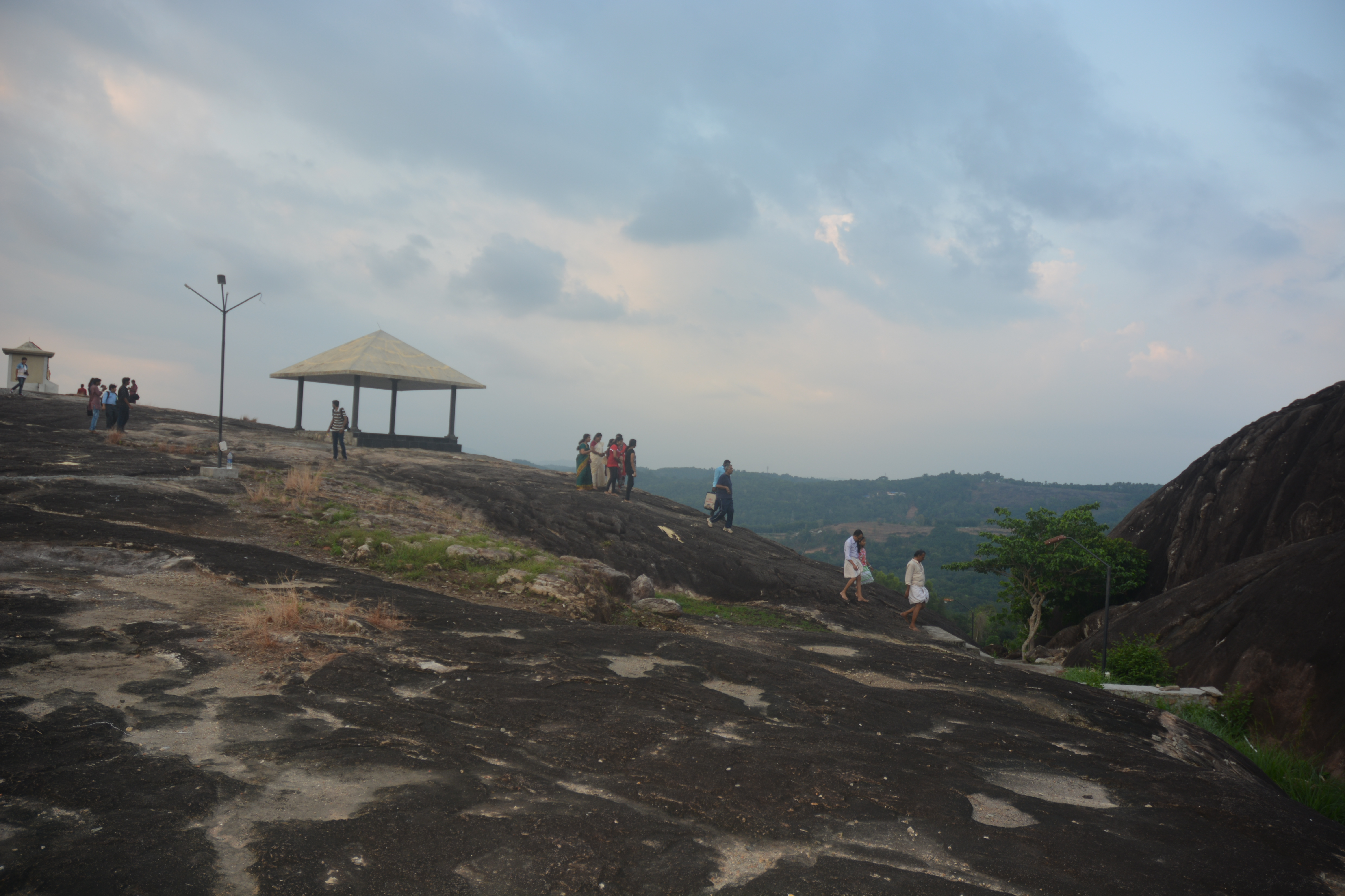 Sasthampara hill view taken in may 2016. This is a place in Thiruvananthapuram.